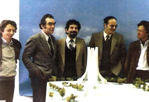 Bachir Yellès and the Lavalin staff of the model of Maqam E'Shahid